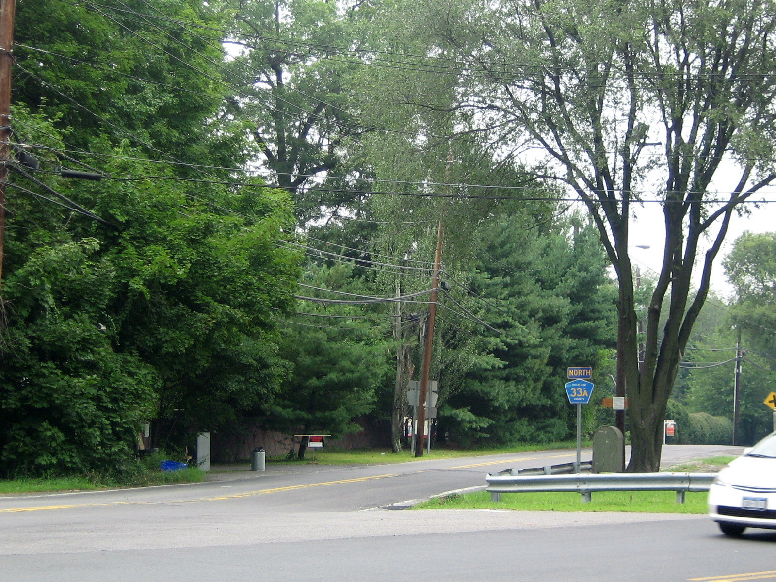 CR 33A spurs off of CR 33 here in Nanuet.